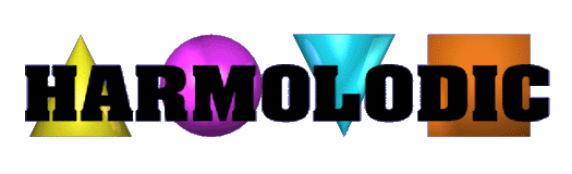 This company logo identified Harmolodic Inc. (Harlem, NY), which owned both the Harmolodic record label and its associated website, . The first known use of this logo is on the rear cover of the CD Tone Dialing, released in September 1995. Both the record label and website are defunct as of 2012.